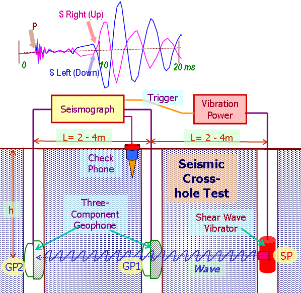 Layout of crosshole seismic test